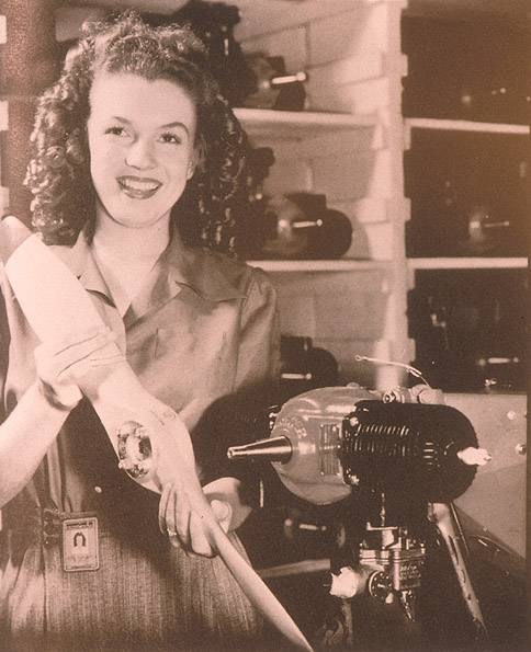 1945 YANK magazine photo of Marilyn Monroe as Norma Jeane Dougherty